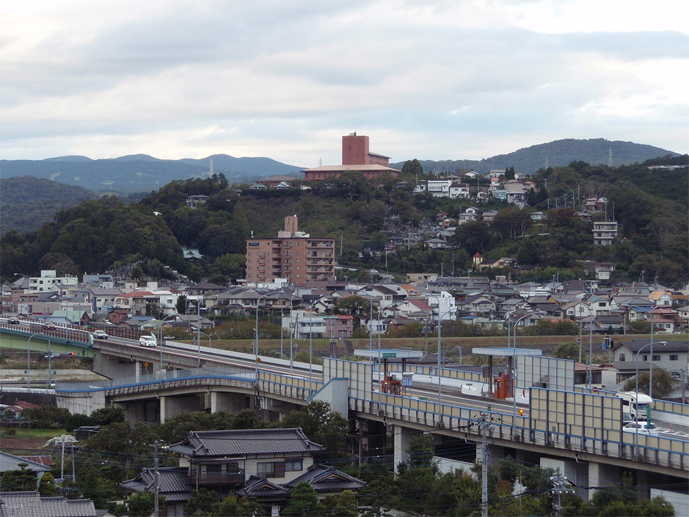 A view of the Izunokuni (in the upper 2/3) and Izu (in the lower 1/3) in Shizuoka Prefecture, Japan.